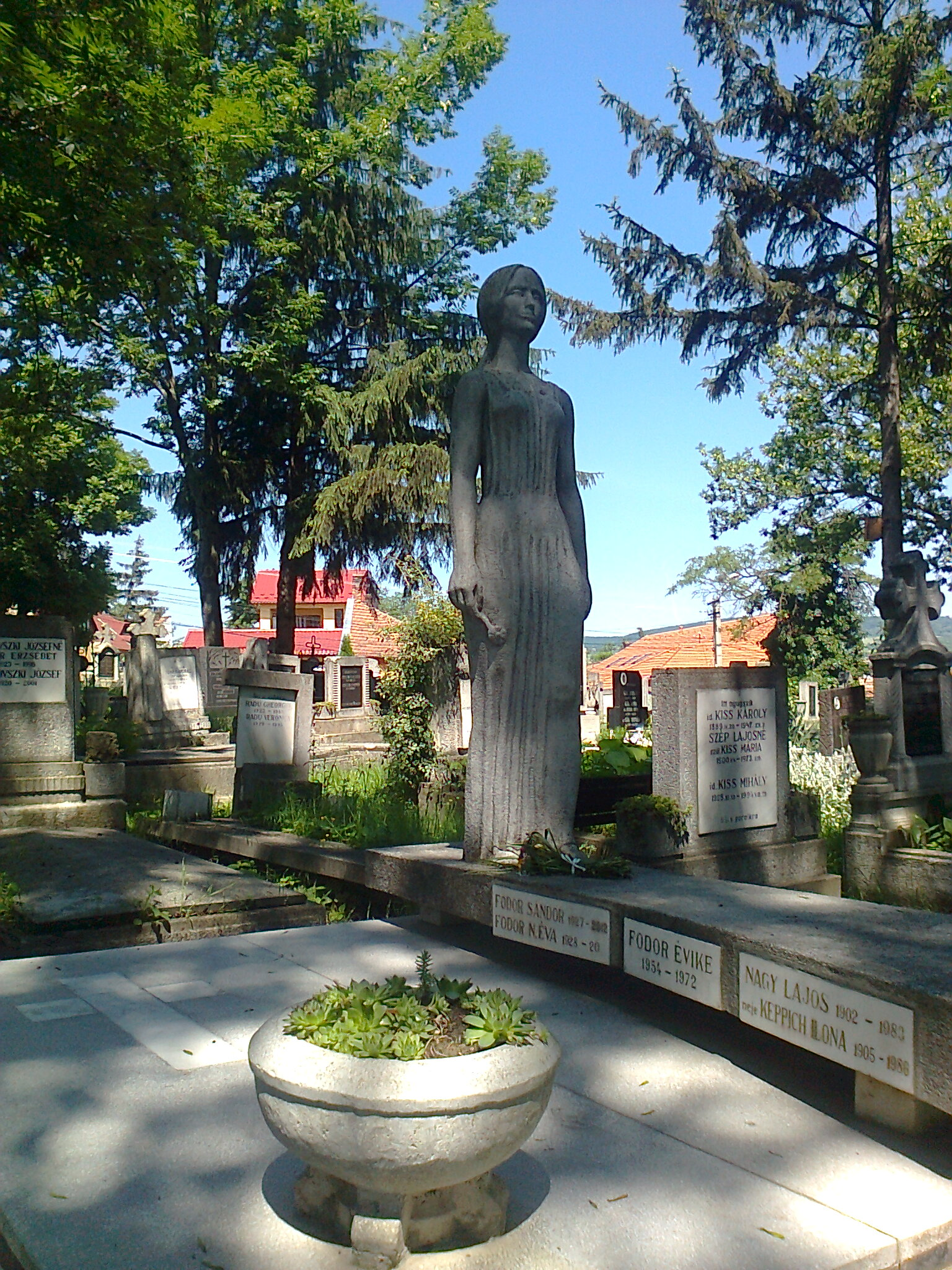 Tomb of Hungarian writer Sándor Fodor (1927-2012)